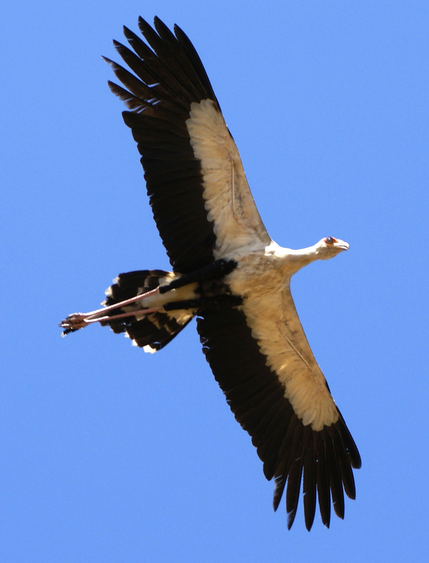 A Secretary Bird flying at Tsavo East National Park, Kenya.